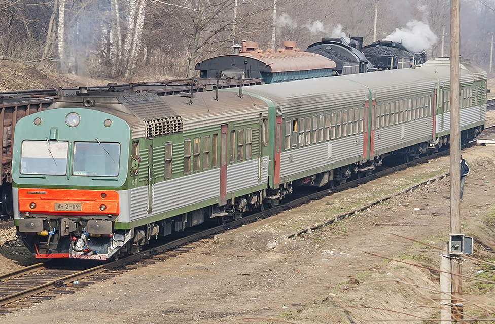 Diesel multiple unit train ACh2-119+2xAPCh2+ACh2 at Kozlovka station, Smolensk region, Russia